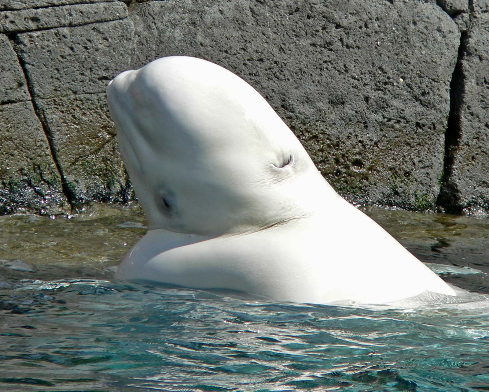 Photo of Delphinapterus leucas (beluga) head at the Vancouver Aquarium